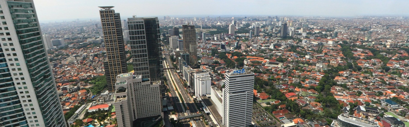 Jakarta viewing from grand indonesia